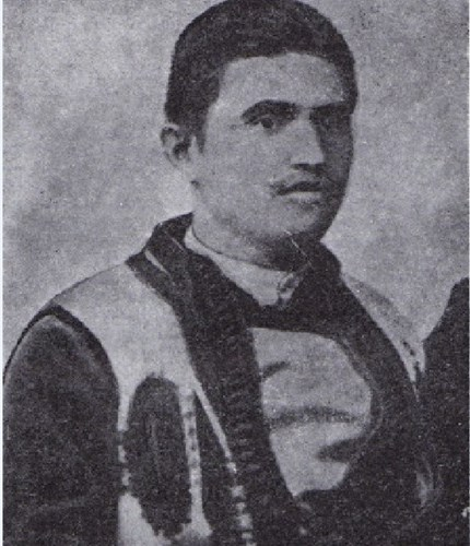 Vasil Ikonomov